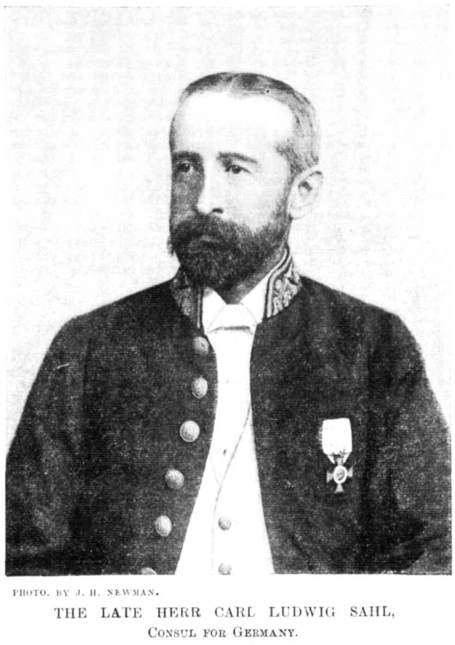 The Sydney Mail and New South Wales Advertiser, 10. April 1897, S. 769, »The Late Herr Carl Ludwig Sahl, Consul for Germany. Photo by J.H. Newman.«